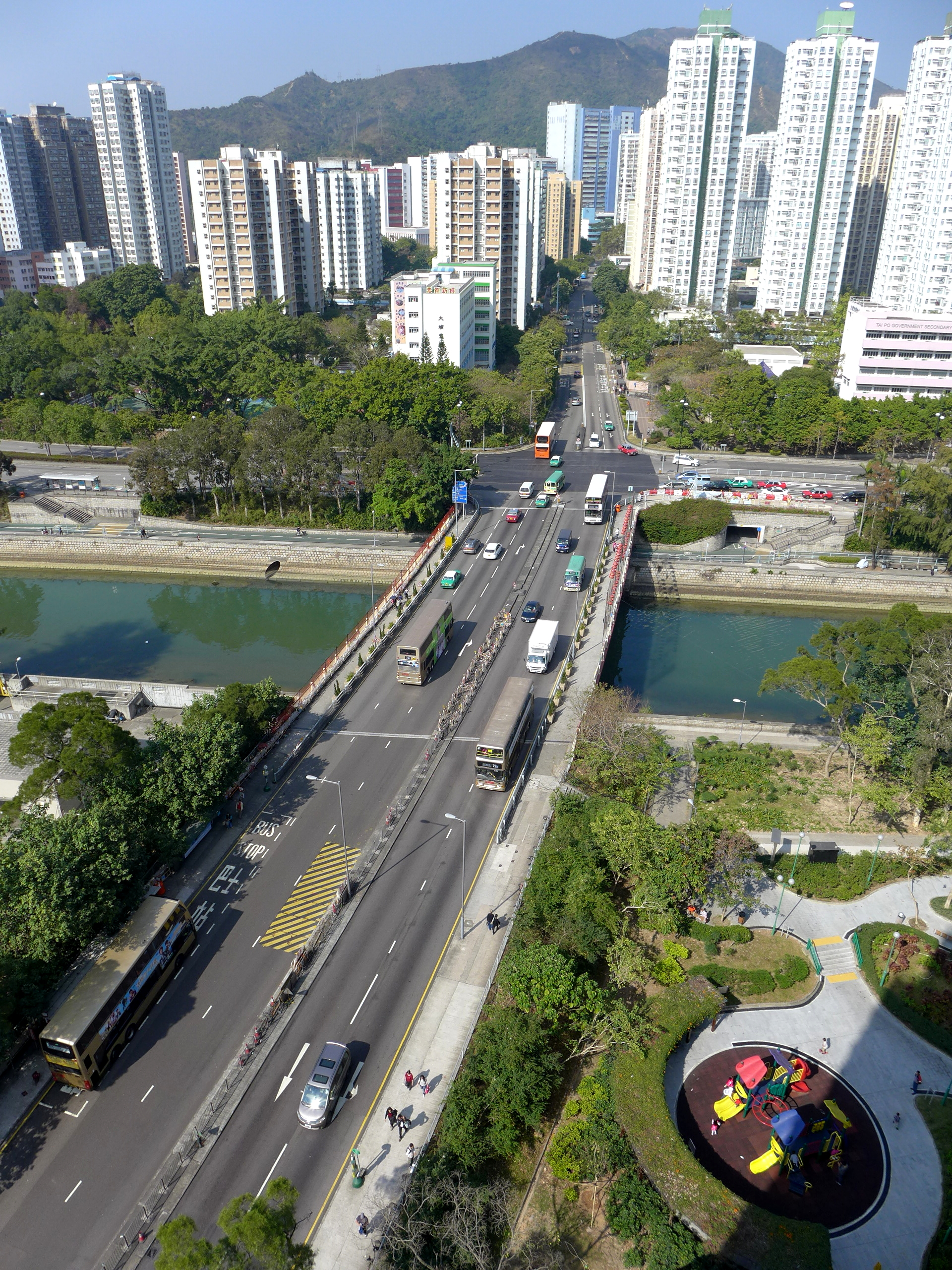 Po Heung Bridge, Tai Po